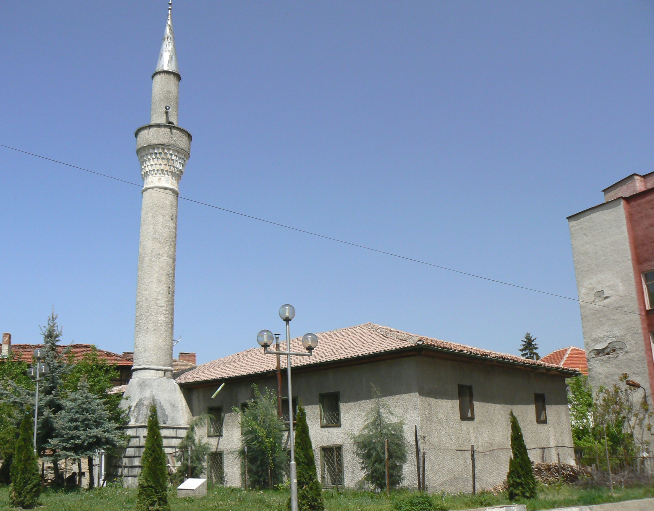 The mosque in Peshtera, Bulgaria